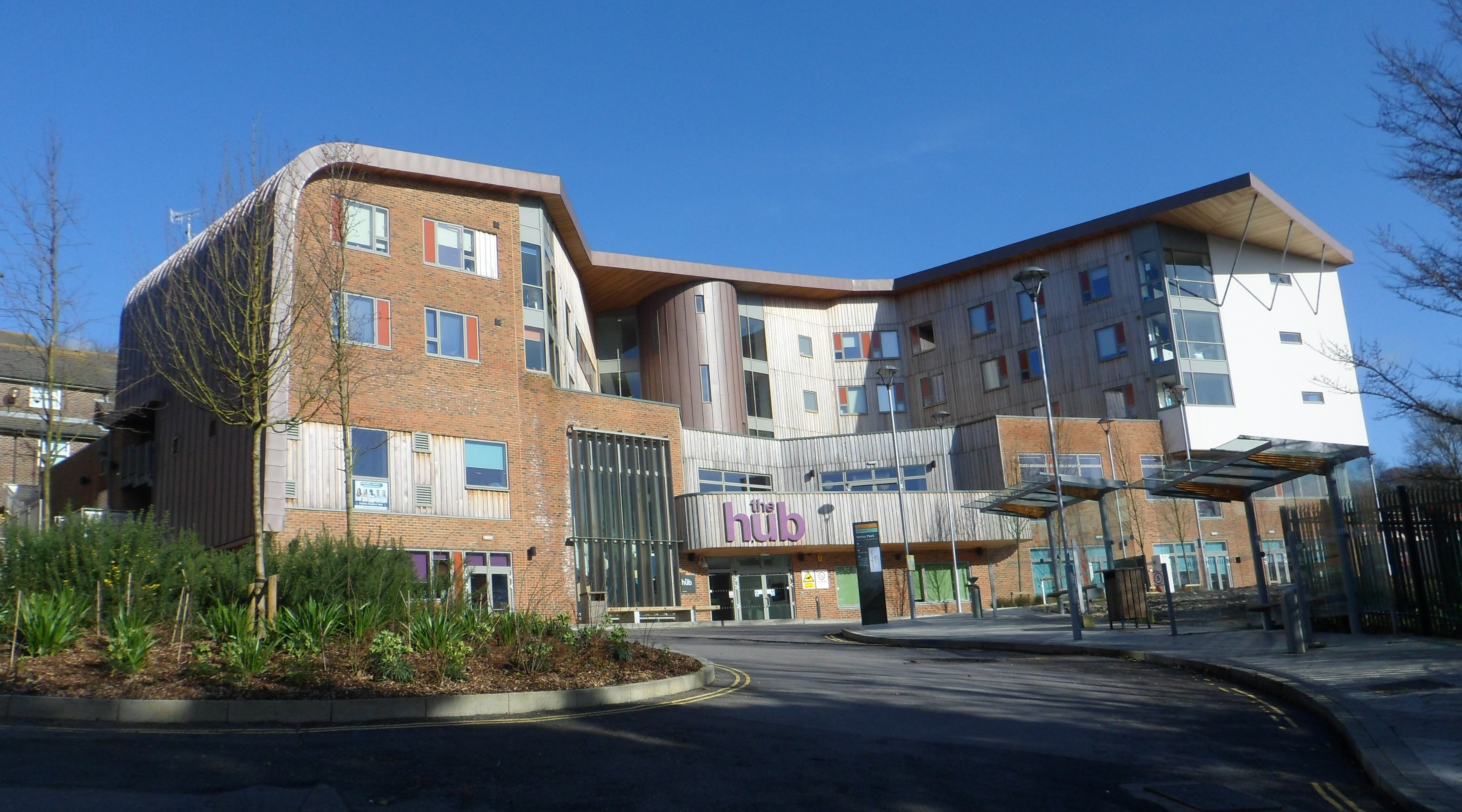 Varley Halls, Coldean, City of Brighton and Hove, England. These are student residences for the University of Brighton.